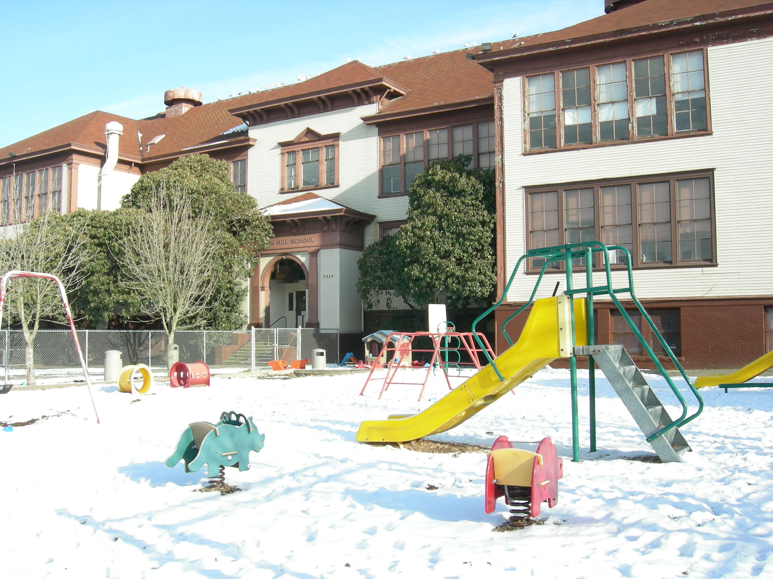 El Centro de la Raza, Beacon Hill, Seattle, Washington (the former Beacon Hill School). The playground in front of El Centro is officially known as "Santos Rodriguez Memorial Park", though it is not connected with the city's Department of Parks and Recreation.